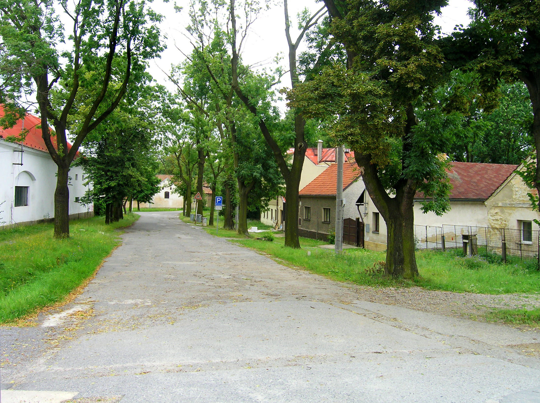 Chrášťany, Czech Republic